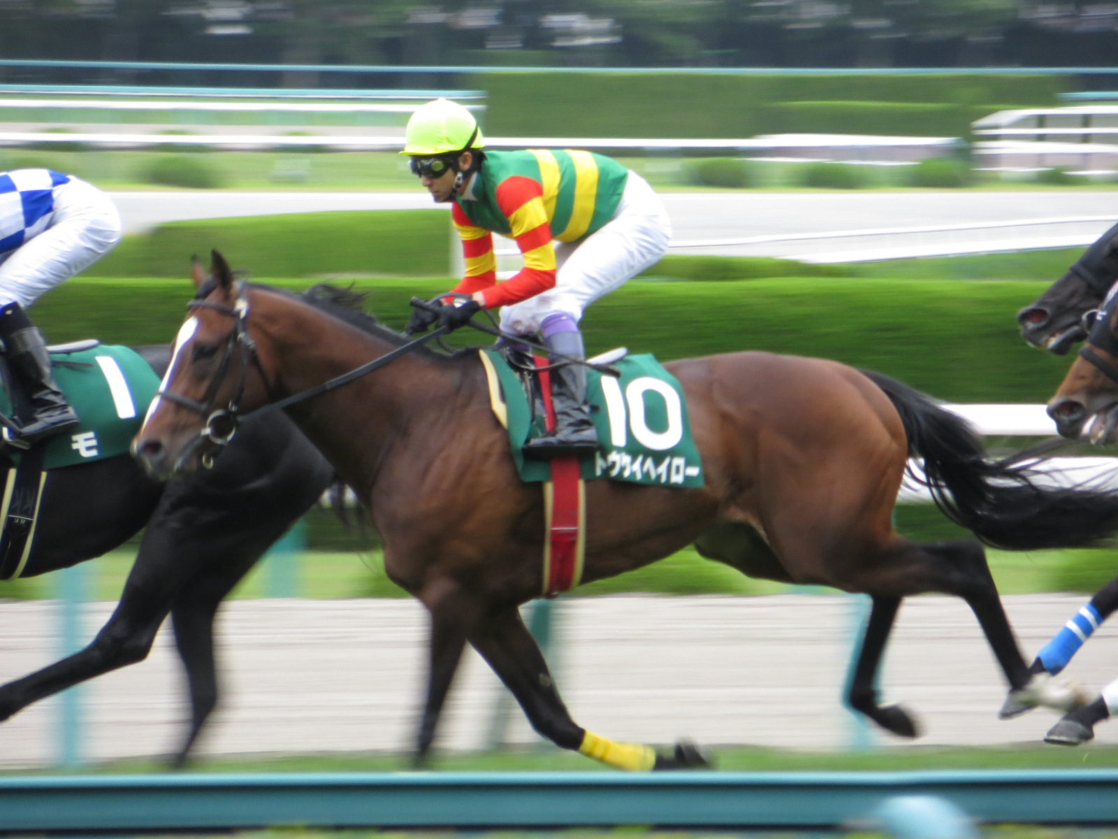 Tokei Halo (Racehorse of Japan).